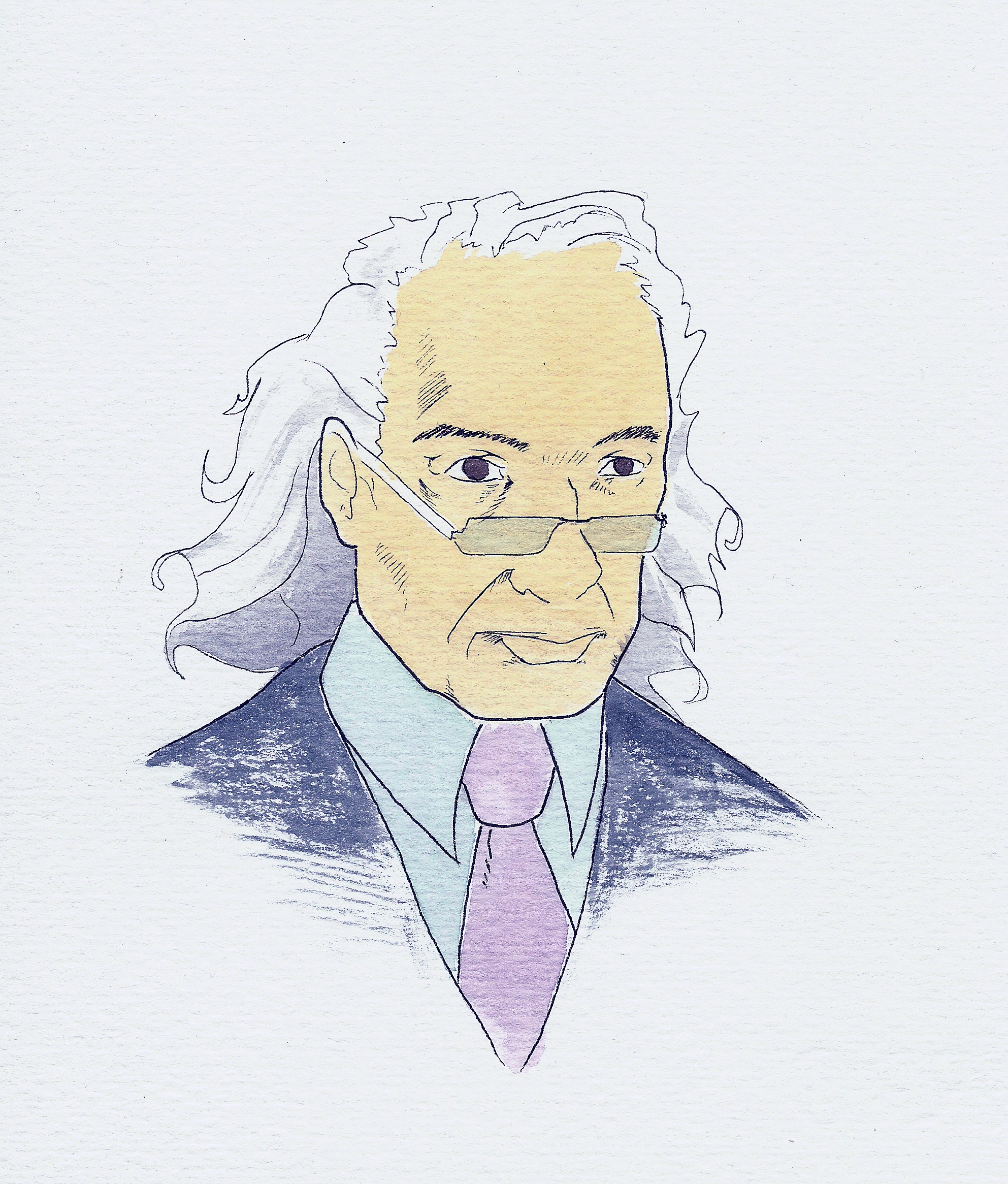 François Châtelet portrait (1925-1985) French philosopher. Ink and watercolor